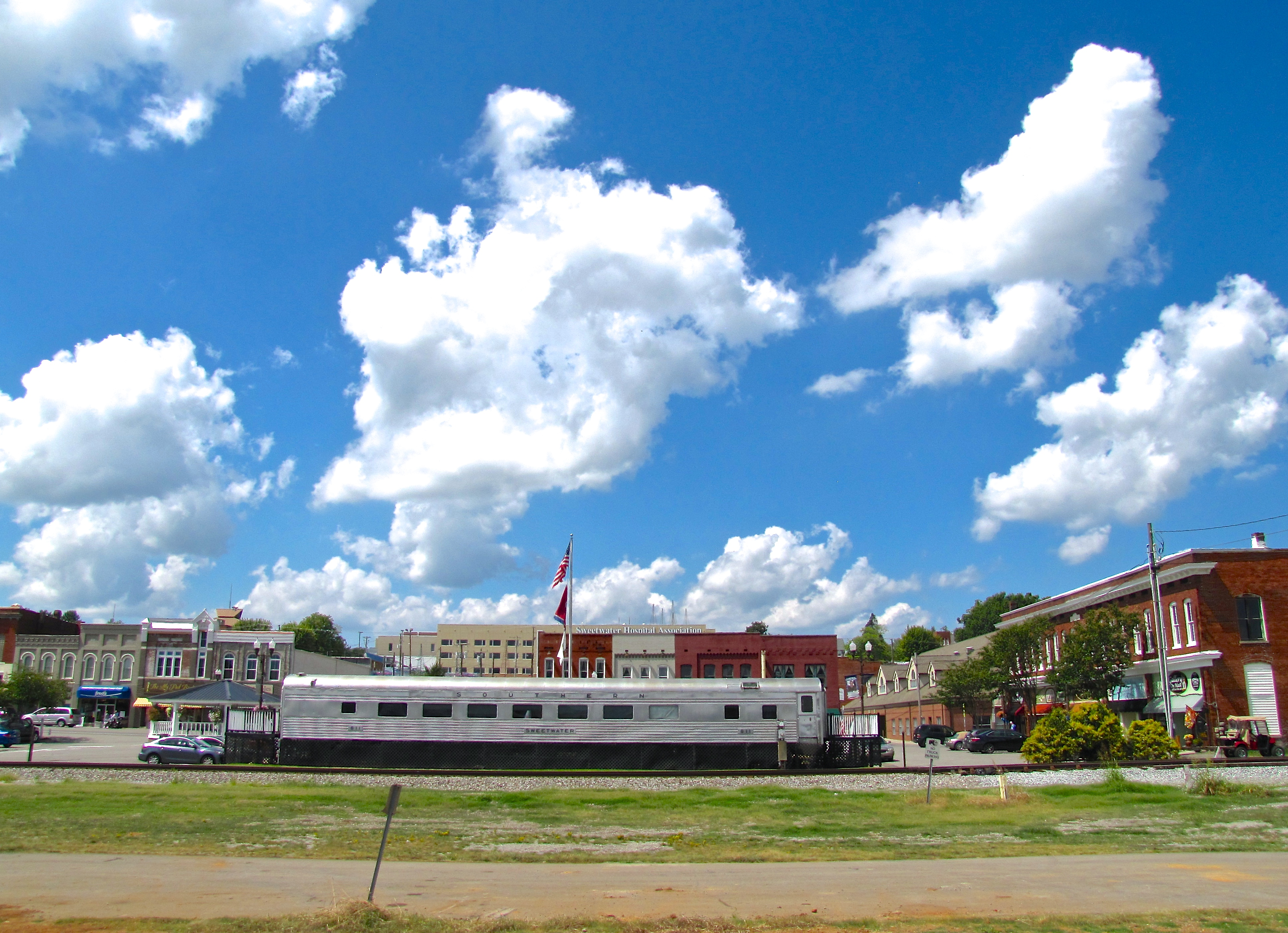 The downtown area of Sweetwater, Tennessee, United States.